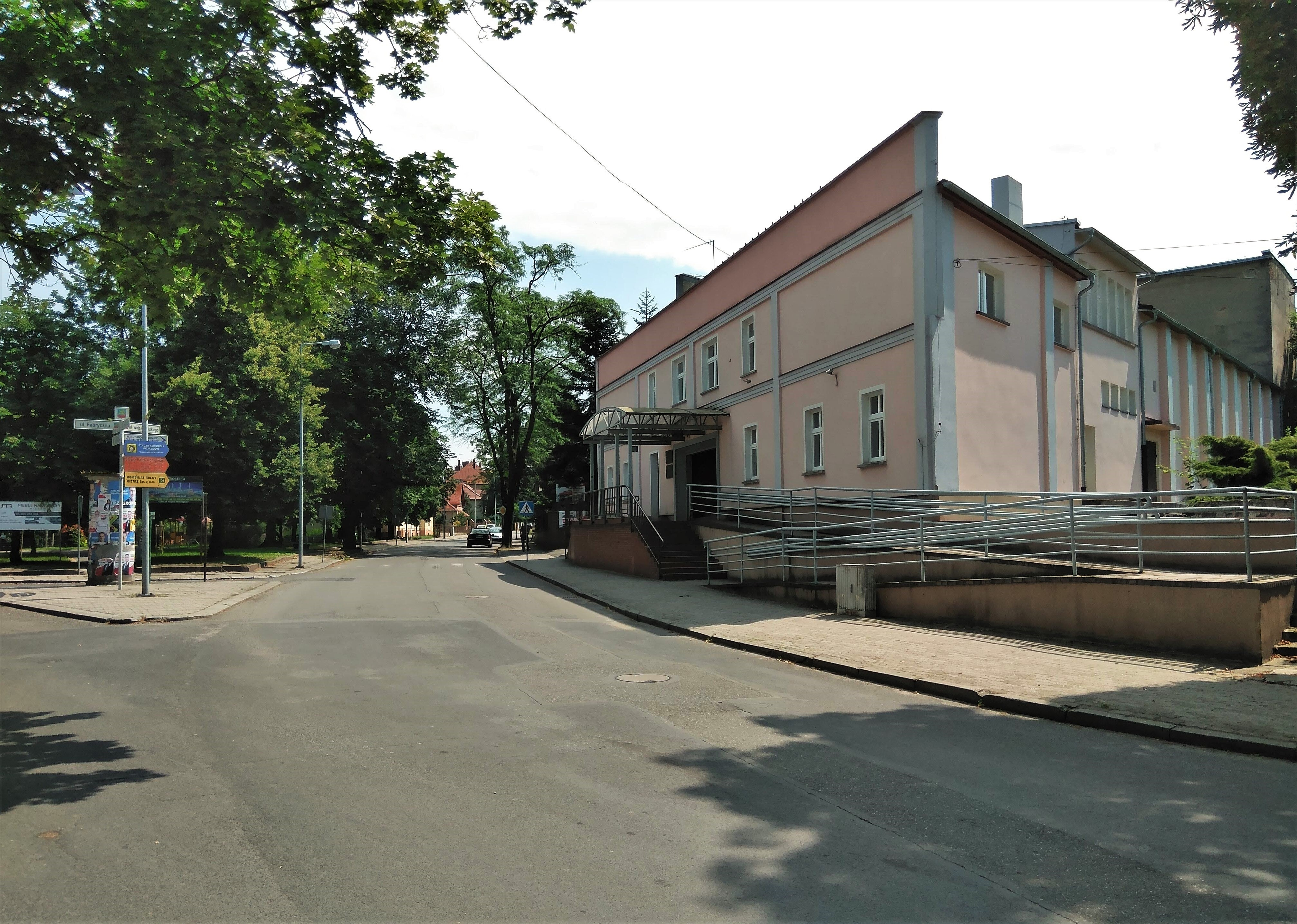 House of Culture in the town of Kietrz/Katscher, Upper Silesia, Poland